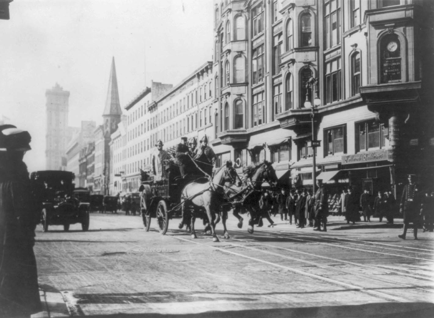 Horse-drawn fire engines in street, on their way to the Triangle Shirtwaist Company fire, New York City